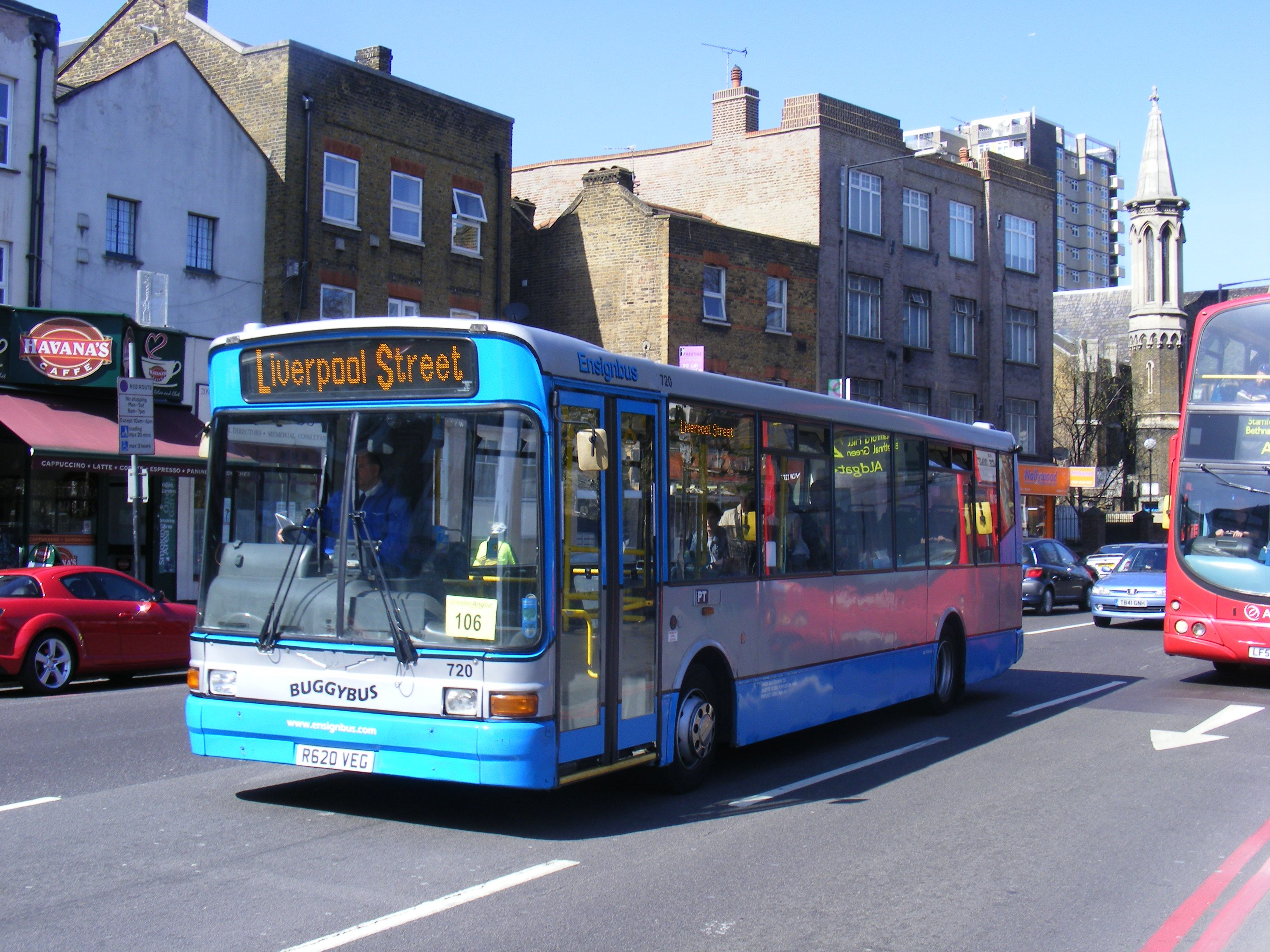 R620 VEG Ensignbus 720, Rail replacement, Clapton Pond E5 ex-Metroline DML520